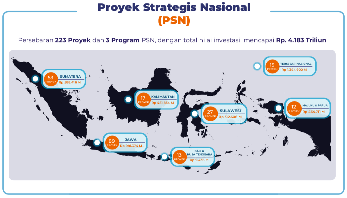 Detail Indonesian National Strategic Projects in 2016